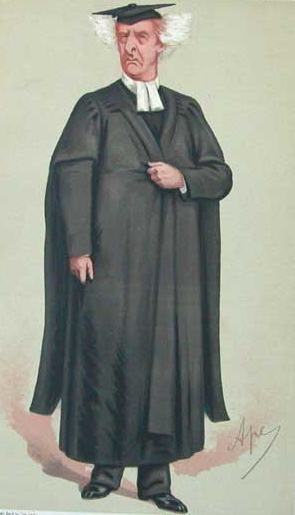 The Very Rev. Henry George Liddell. Caption read "Christchurch".